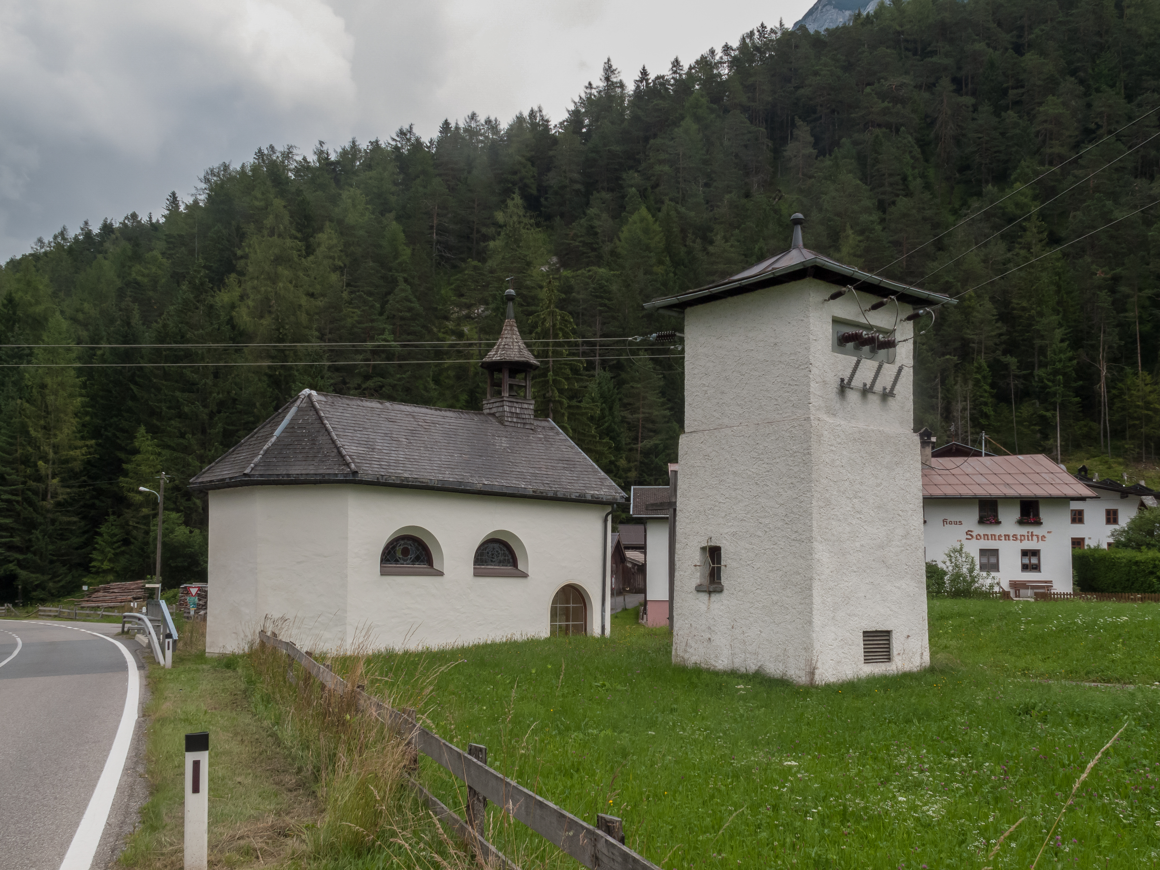 Biberwier, chapel: Kapelle Mariahilf in der Schmitte